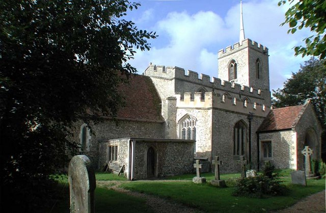 St Lawrence Church, Ardeley, Herts